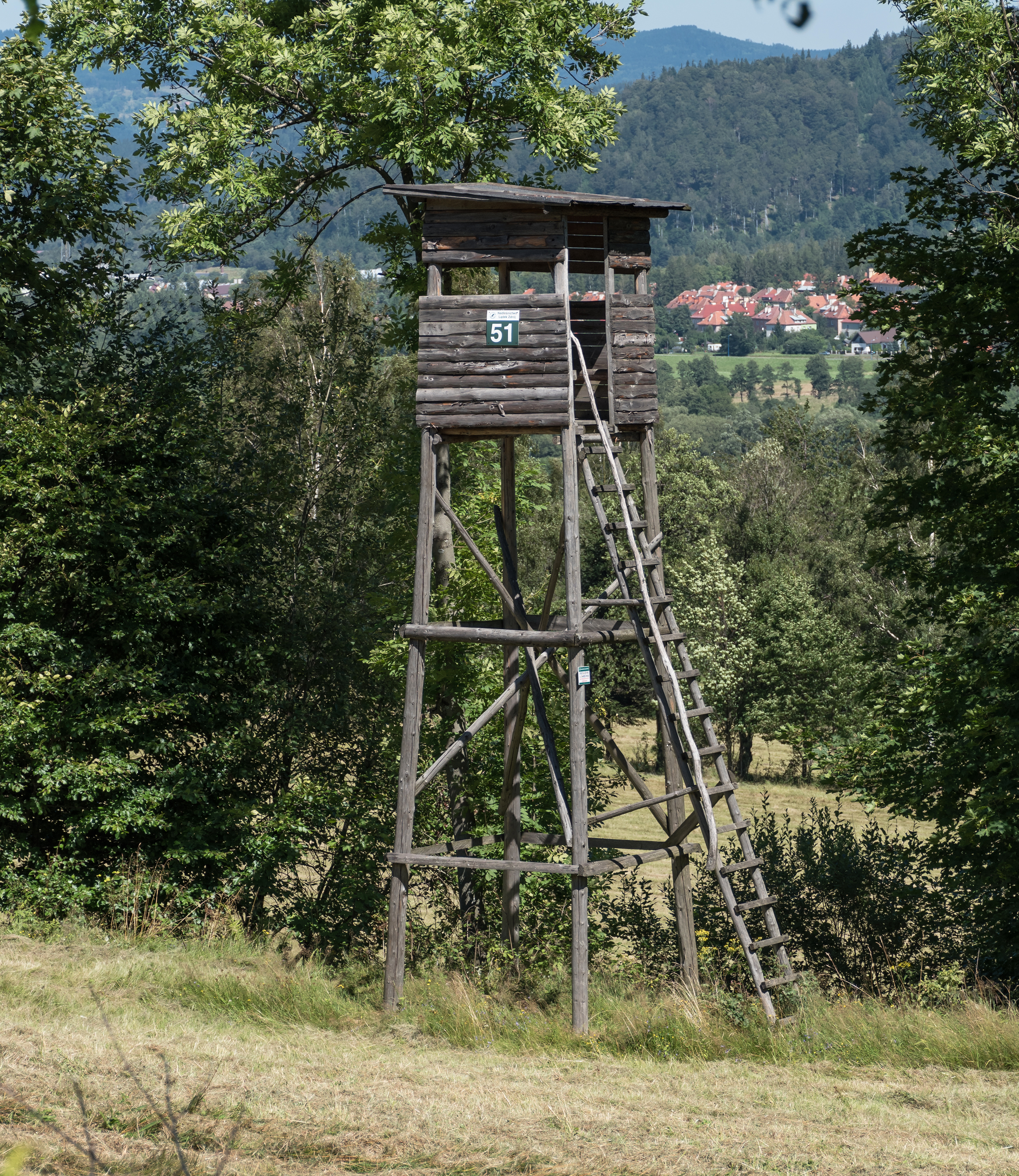 Shooting stand in Bialskie Mountains